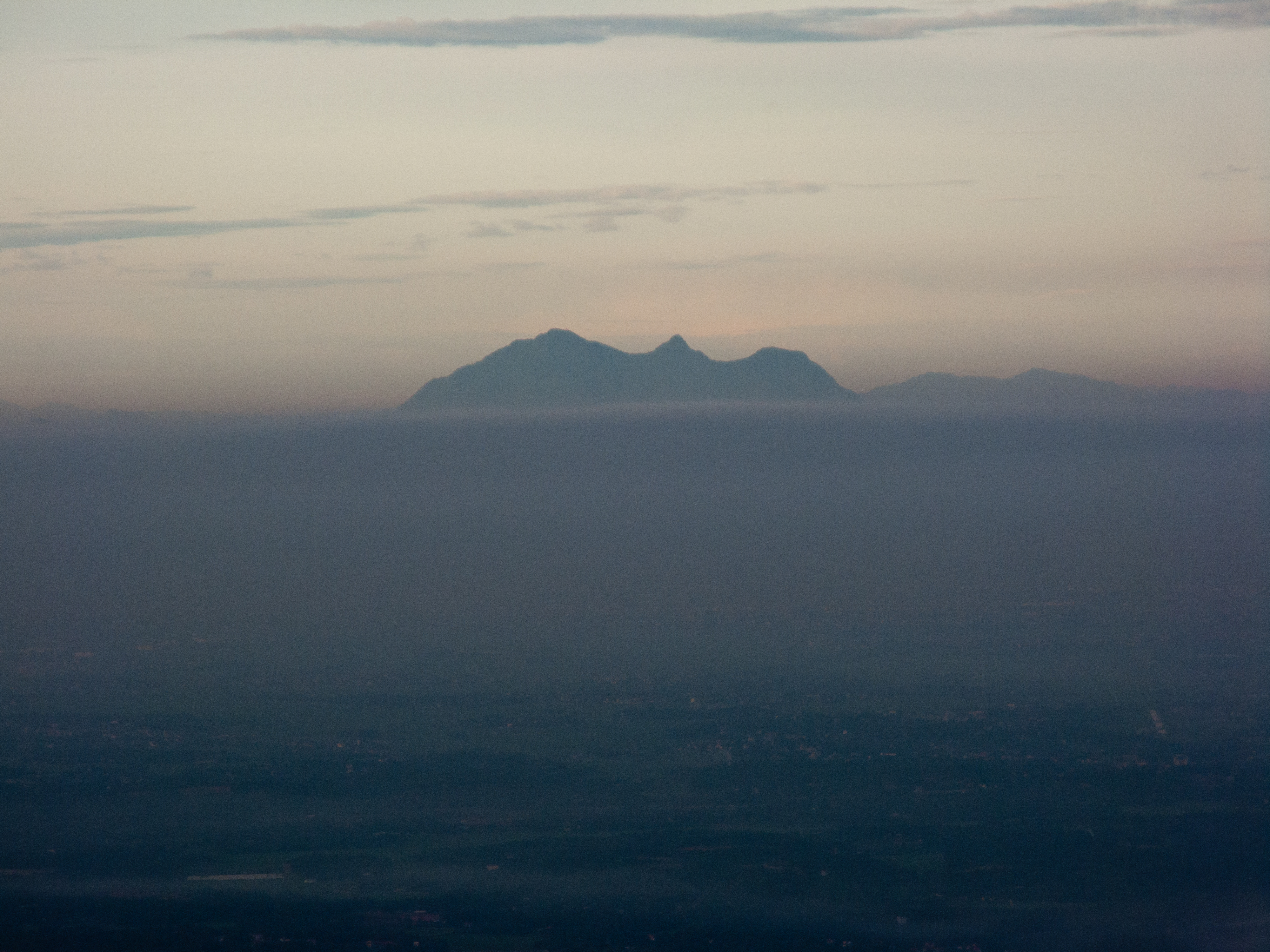 Ba Vi Mountain, Hanoi, Vietnam